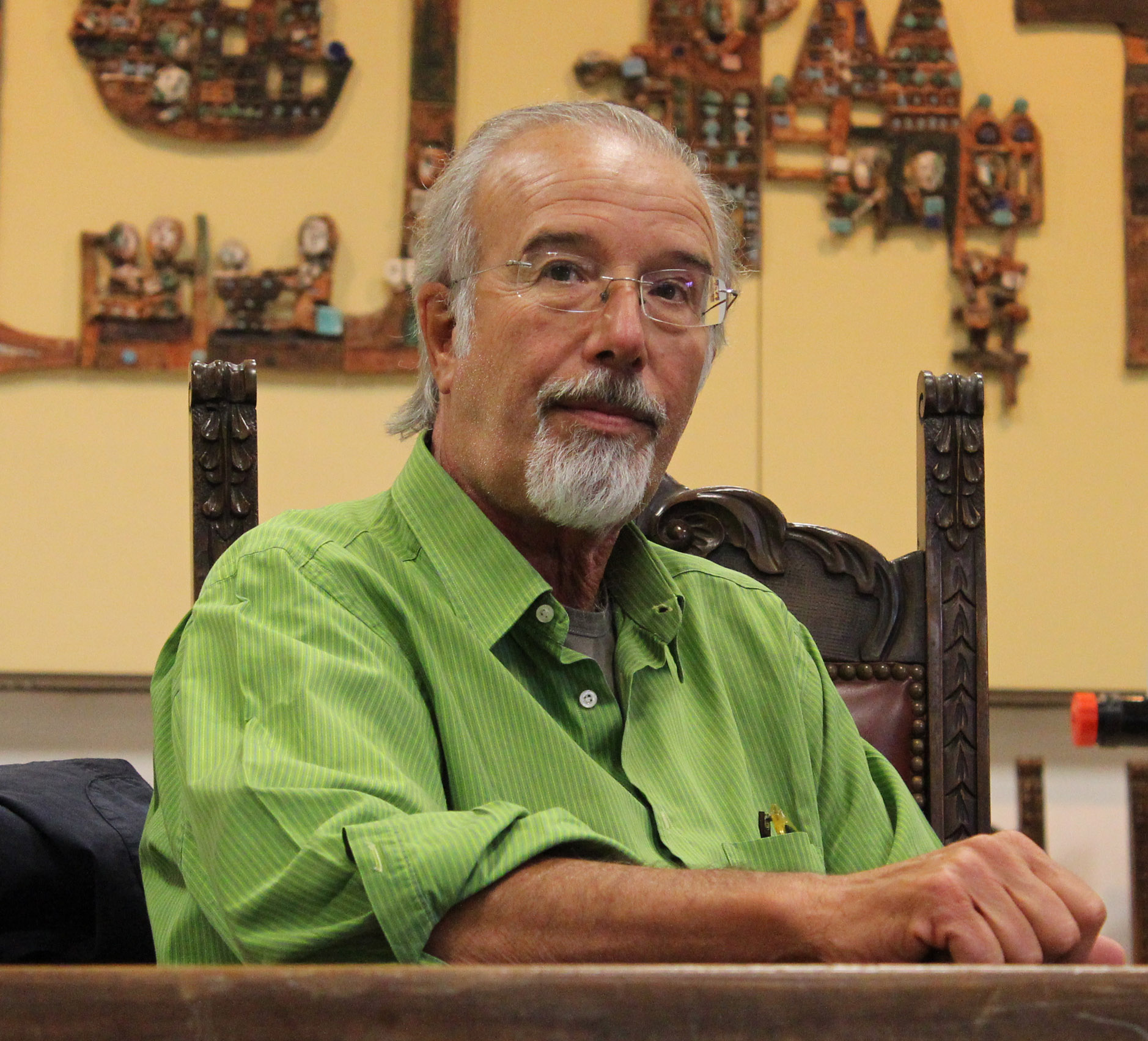 Giorgio Cavazzano, Italian comics artist who works for Disney. Albissola Comics 2013, May 4th-5th 2013, Albissola Marina, Savona, Italy